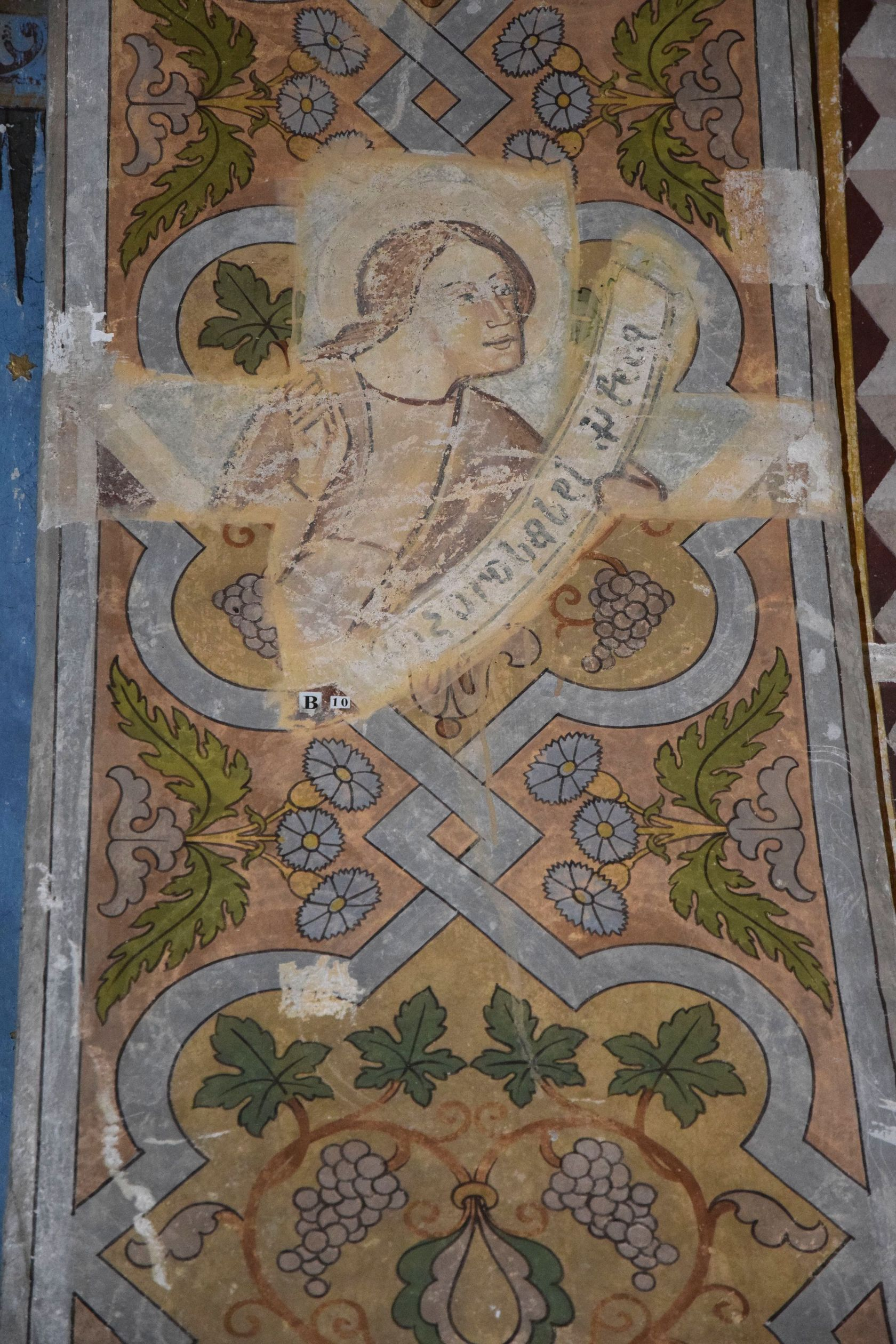 Šivetice, Church of St. Margaret of Antioch, triumphal arch